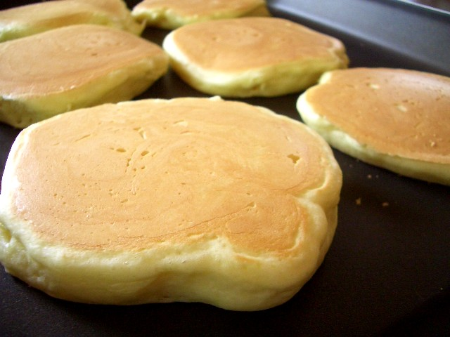 Pancakes being cooked on a griddle.